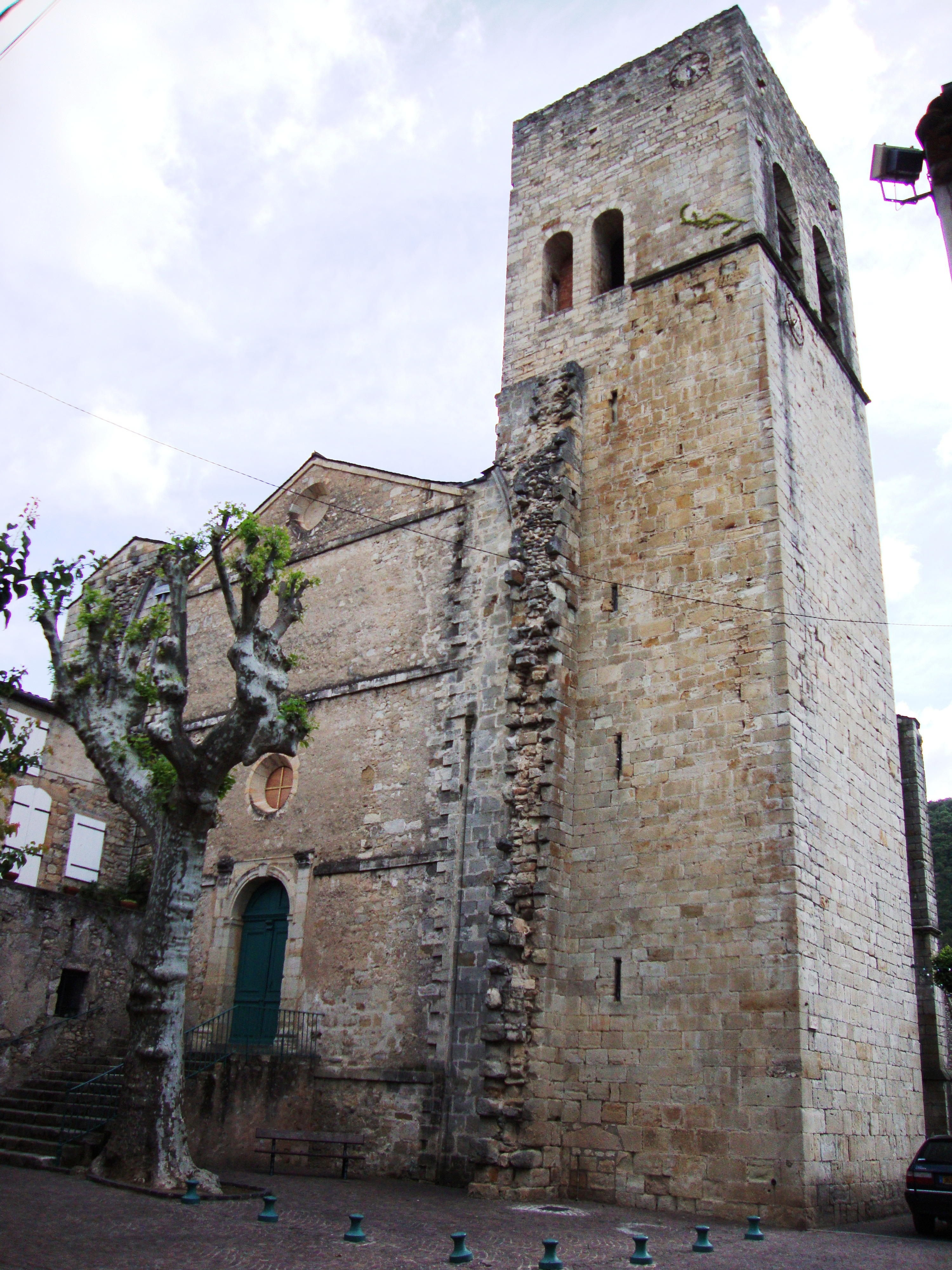 Villemagne-l'Argentière (Hérault, Fr) l'église Saint-Majan, sa tour.